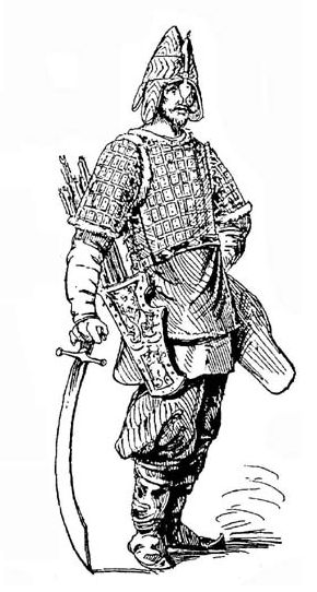 Russian warrior in brigandine-like armour, presumably a "kuyak"